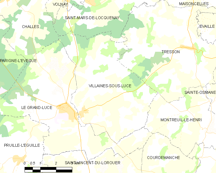 Map of French municipality